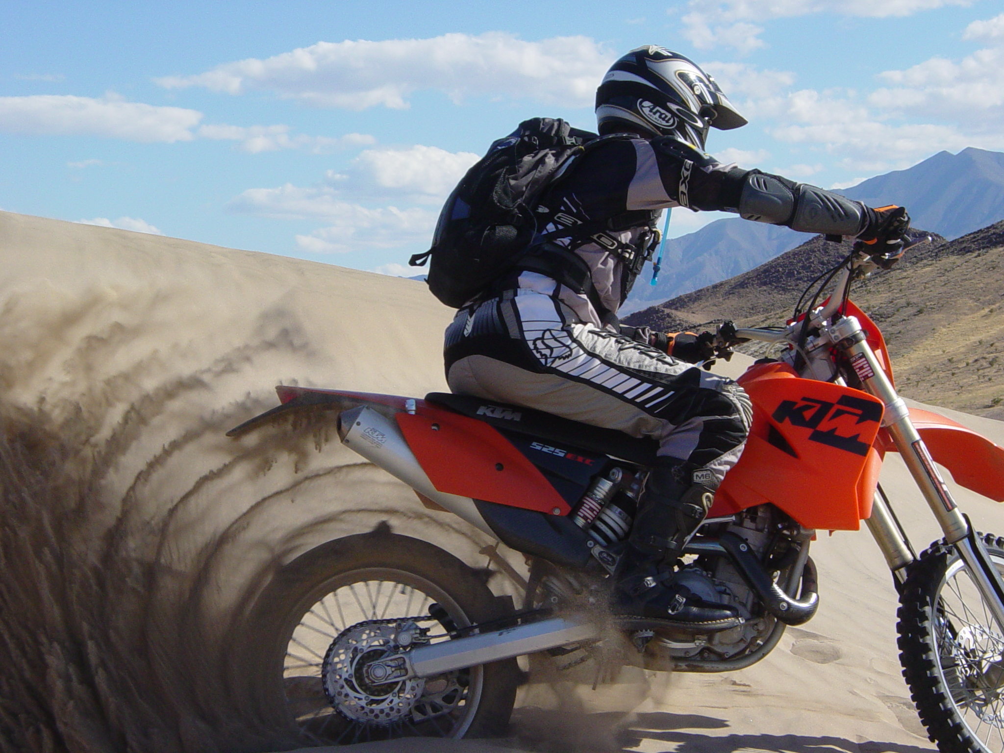 Dumont Dunes, California. Rider, Kevin P. Rice, is on 2004 KTM EX/C 525 dirt-bike outfitted with paddle tire. Dumont Dunes Off-Highway Vehicle Area is an open and legal riding area 30 miles north of Baker on Highway 127 and features the highest dunes in California. It is also one of the few sand dune areas that exhibit an audible phenomenon known as Singing Sand Dunes.